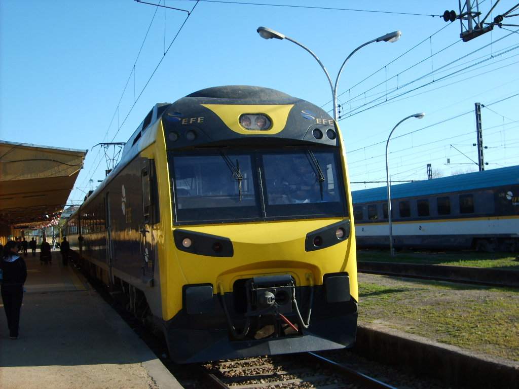 Terrasur (train) in Chillán station railway